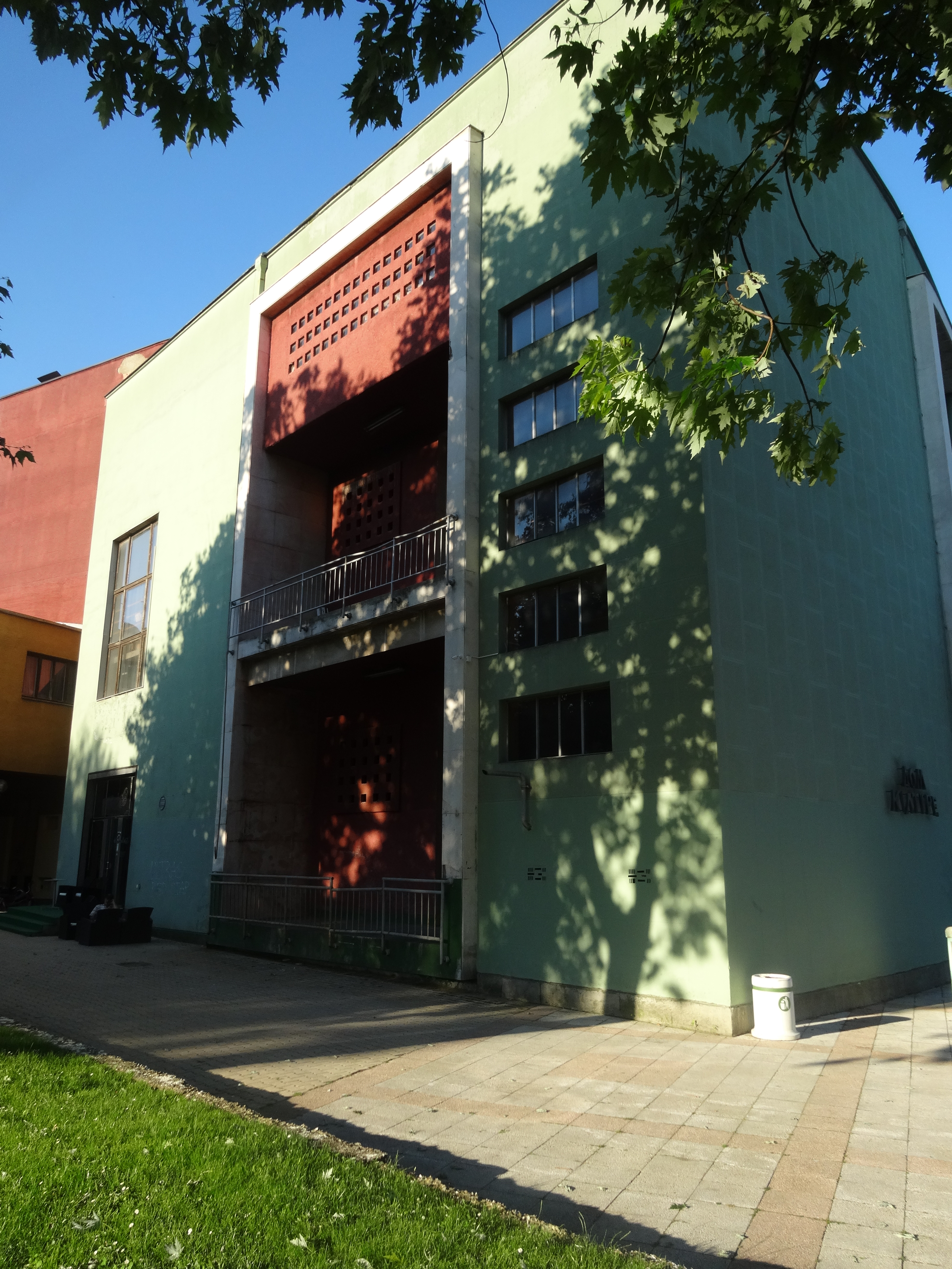 Valjevo, Cultural center